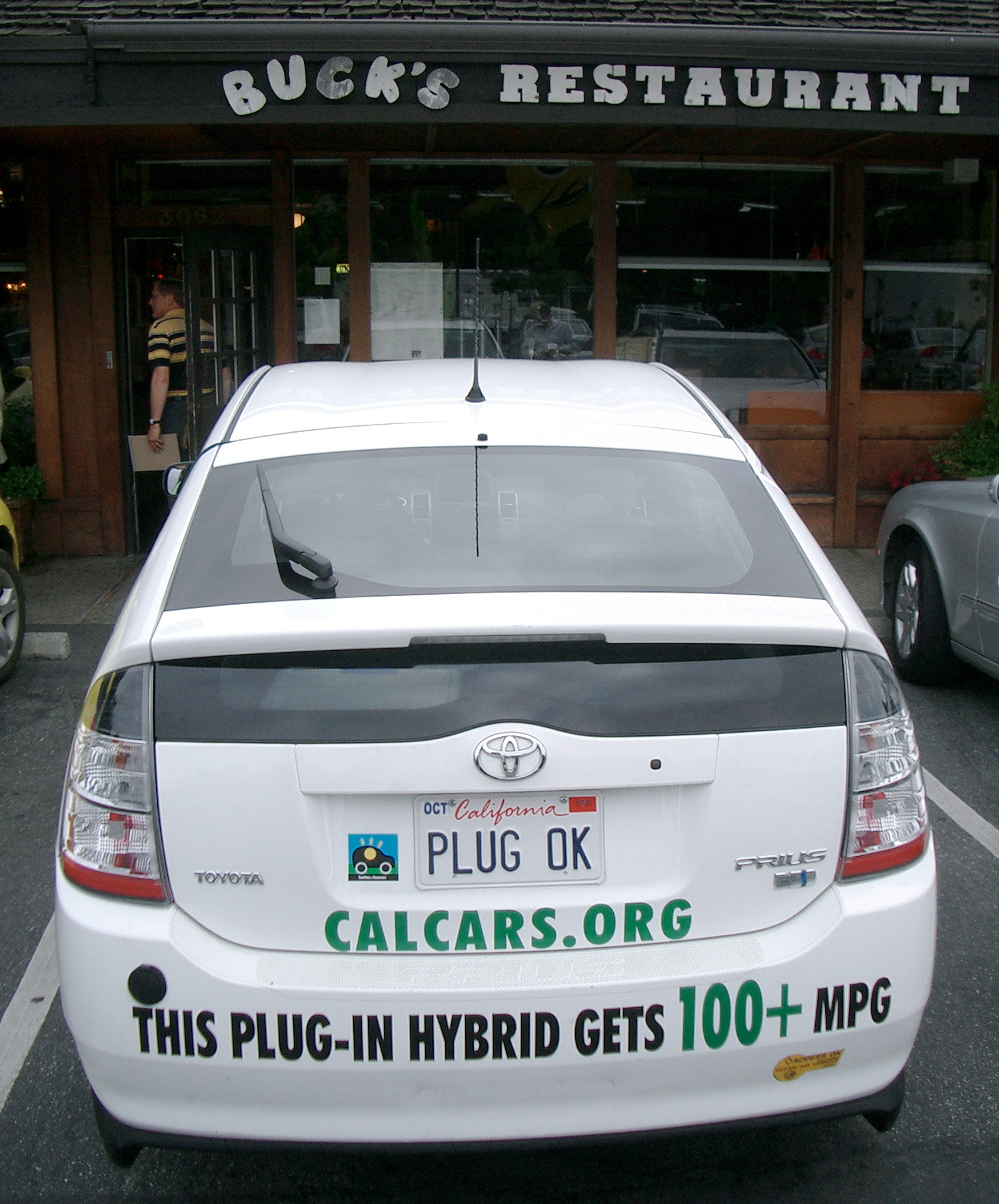 CalCars converted plug-in Toyota Prius 100+ (delivers 100 mpg) This is one of the early hybrid conversions. They add bigger batteries and an extension cord to a hybrid gas-electric car. It runs on electricity for the daily commute and uses gasoline as the convenience backup for longer distances.